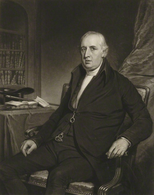 Portrait of William Bruce (1757–1841), Irish Presbyterian minister and educator.